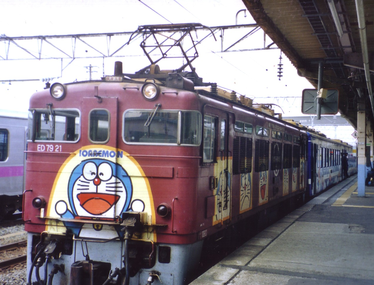 ED79 21 at Aomori Station